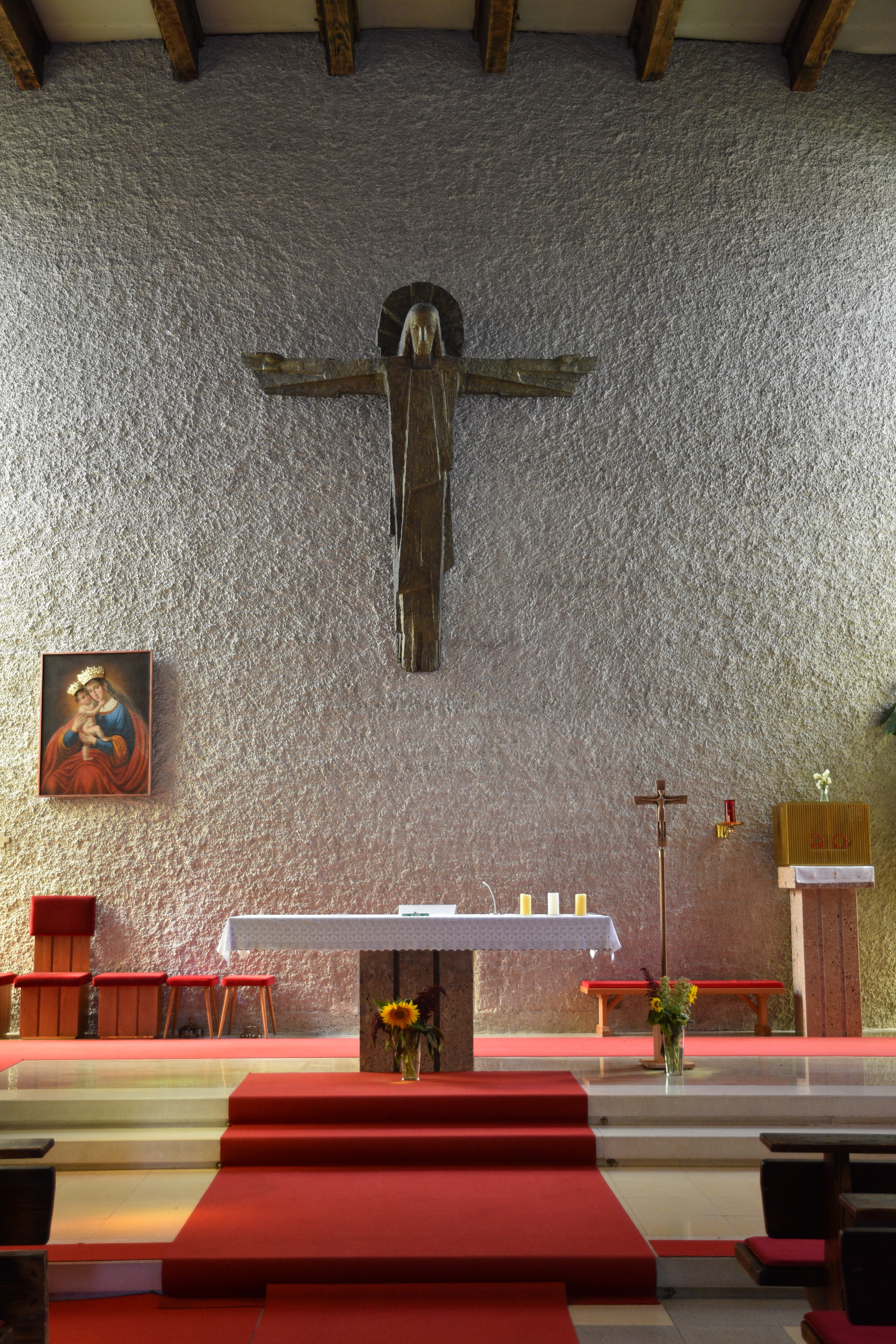 Church KatHochwolkersdorf - Interior